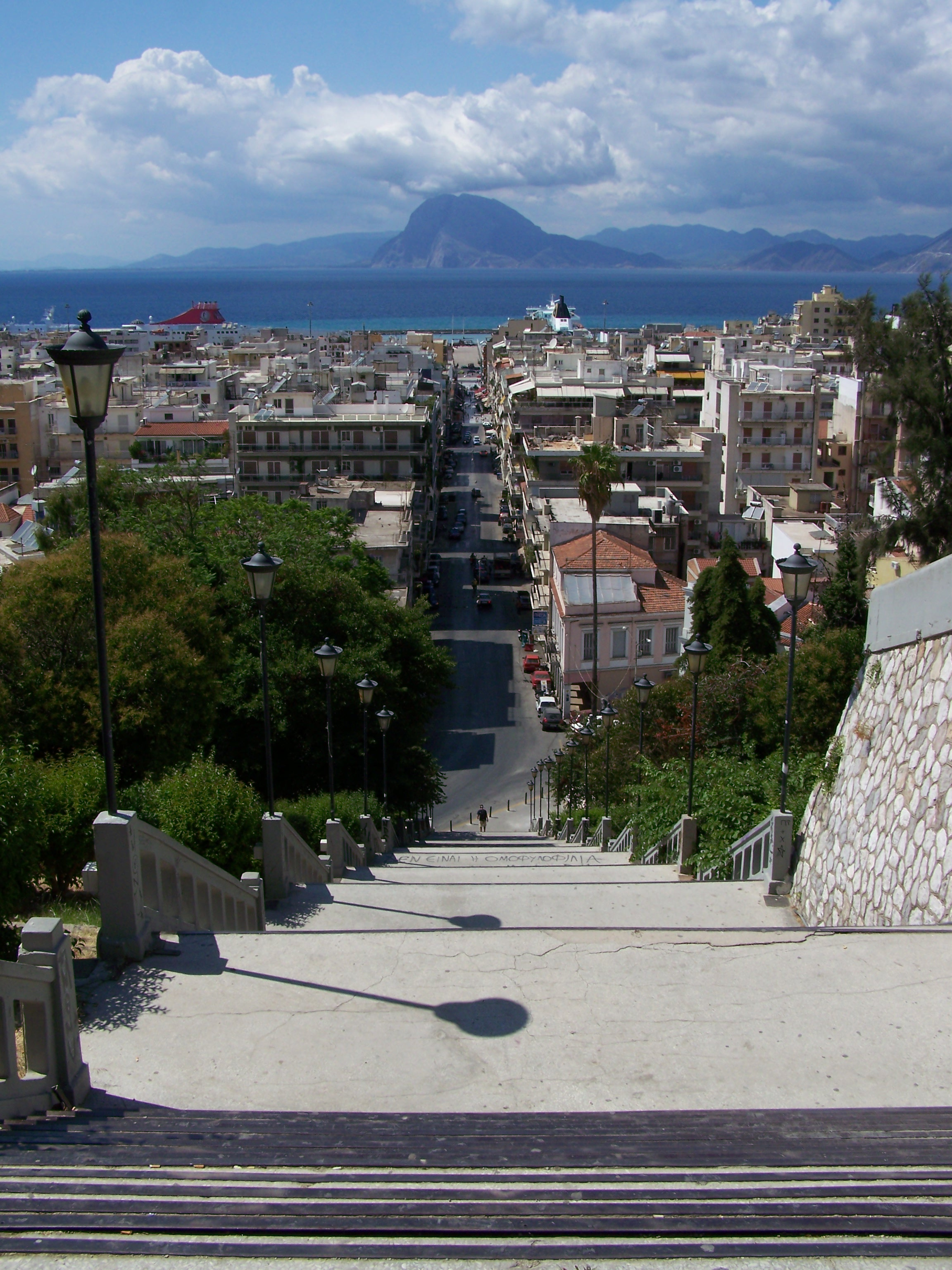 Stairs in Patras, Greece with the Varasova mountain across the Gulf of Corinth.